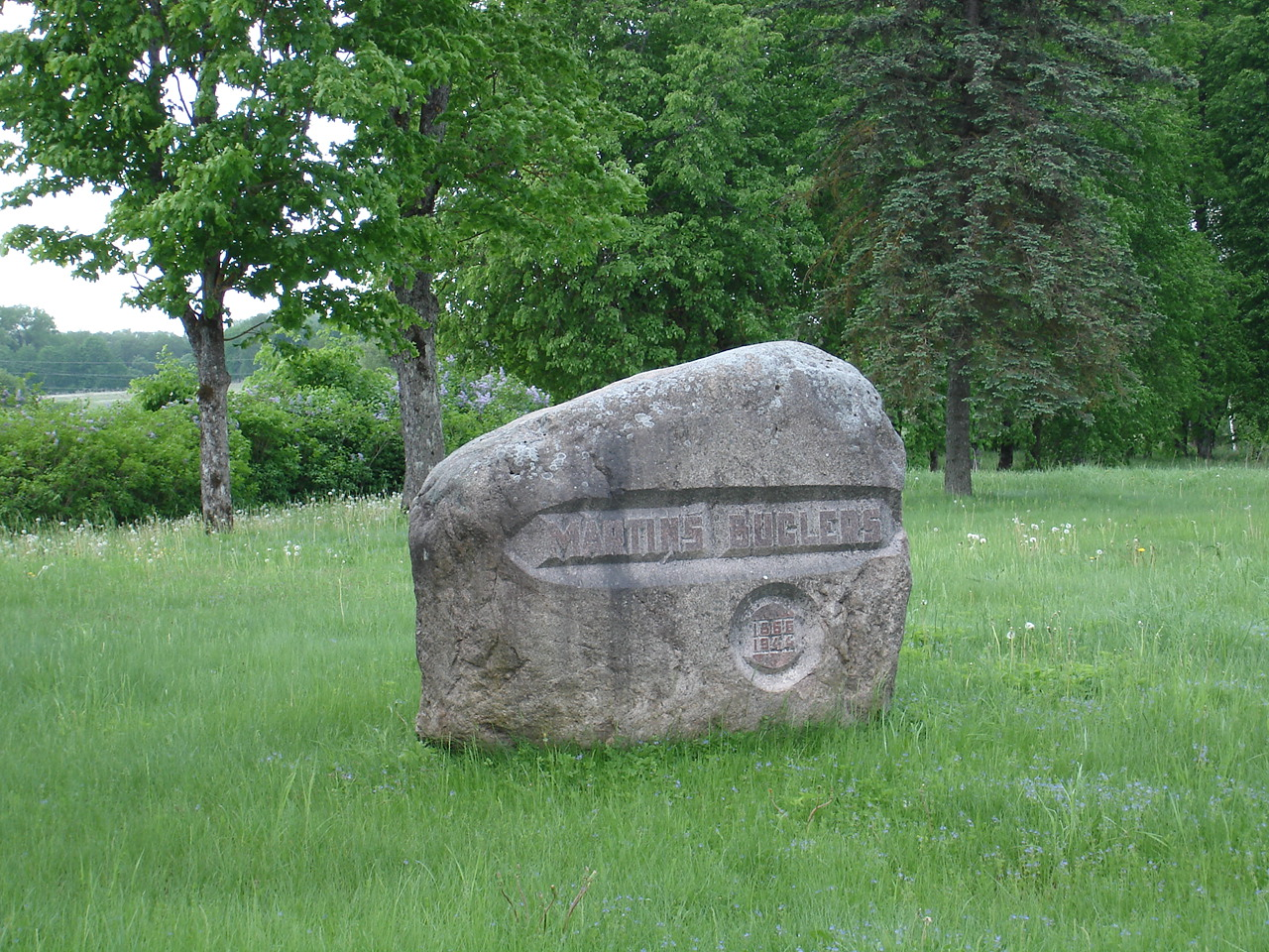 monument